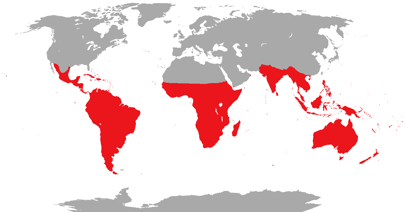 Map showing the range of the Parrot.